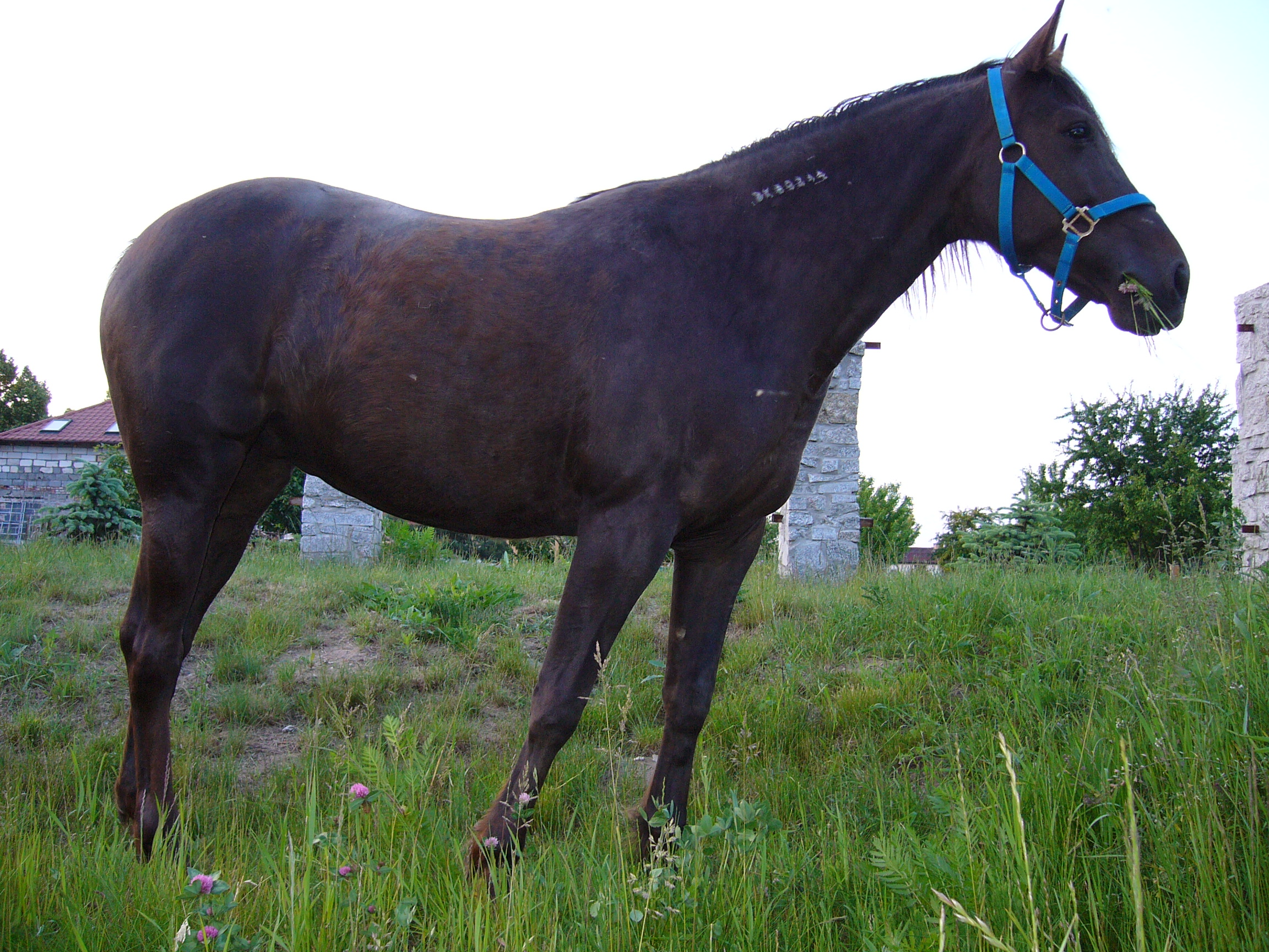 standardbred, mare Fortune F H (Speedy Herve - Nable)